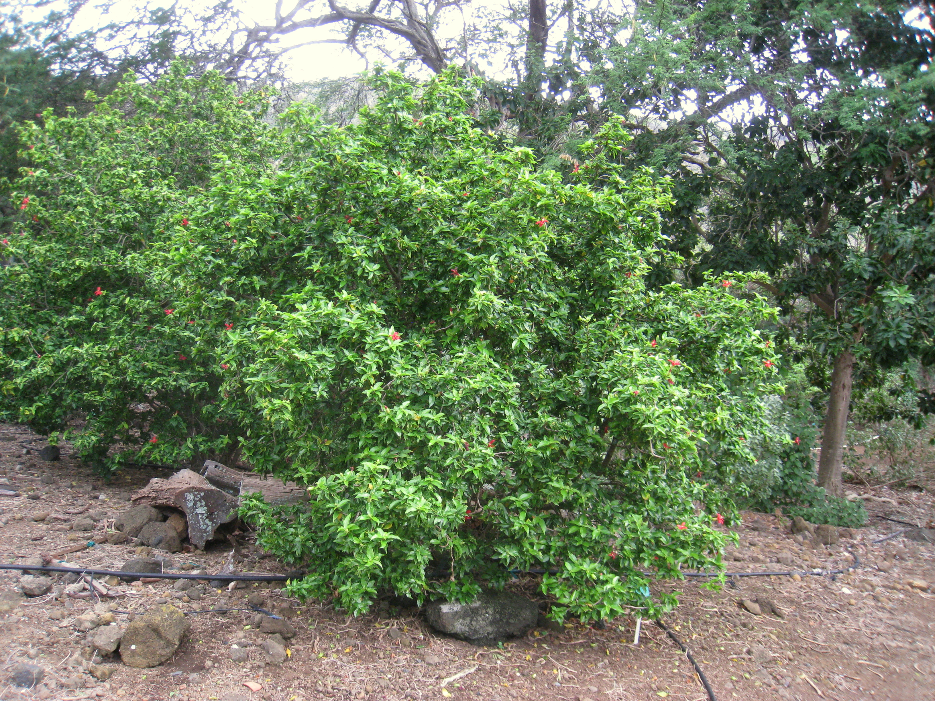 Hibiscus clayi in the Koko Crater Botanical Garden, Honolulu, Hawaii, USA.